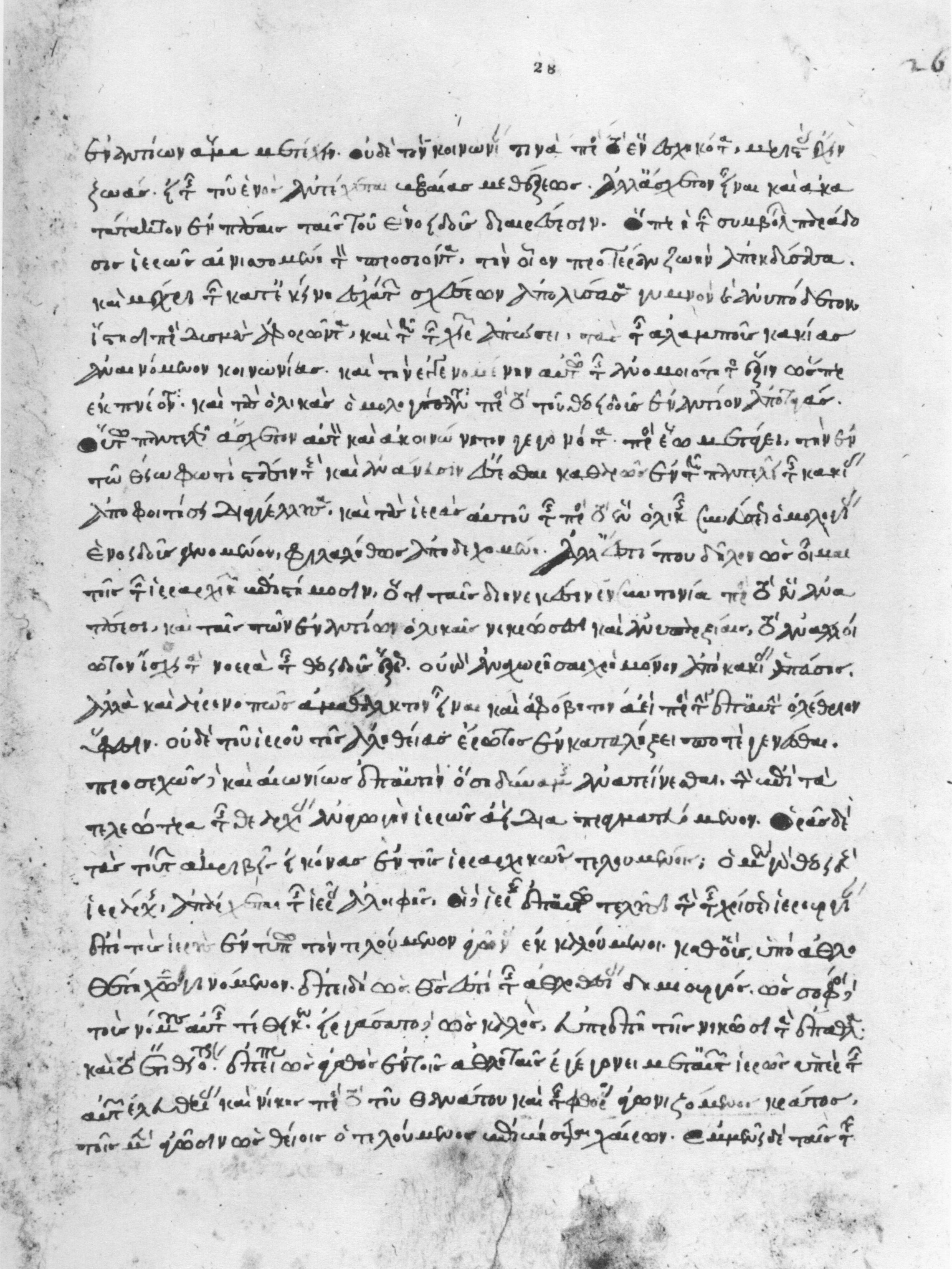 Pseudo-Dionysius the Areopagite, Ecclesiastical hierarchy, in ms. Milan, Biblioteca Ambrosiana, M 87 sup., fol. 28r.